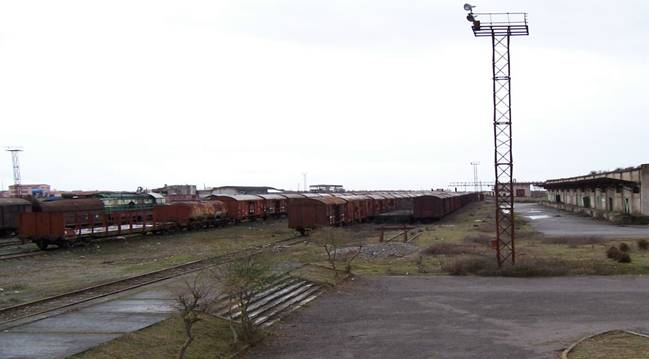 Bajzë Rail Station - Freight Terminal